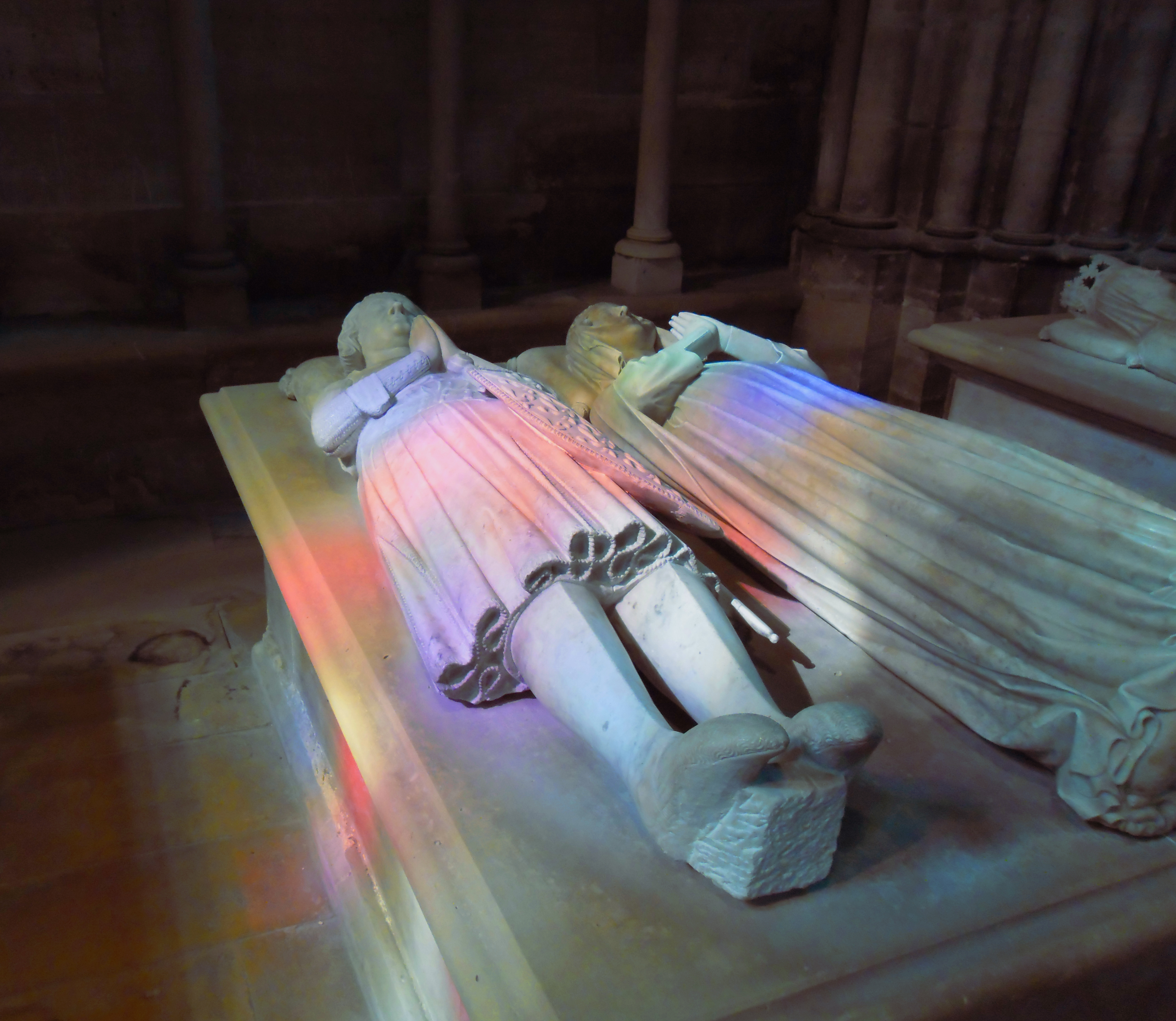 Tomb Basilique St-Denis